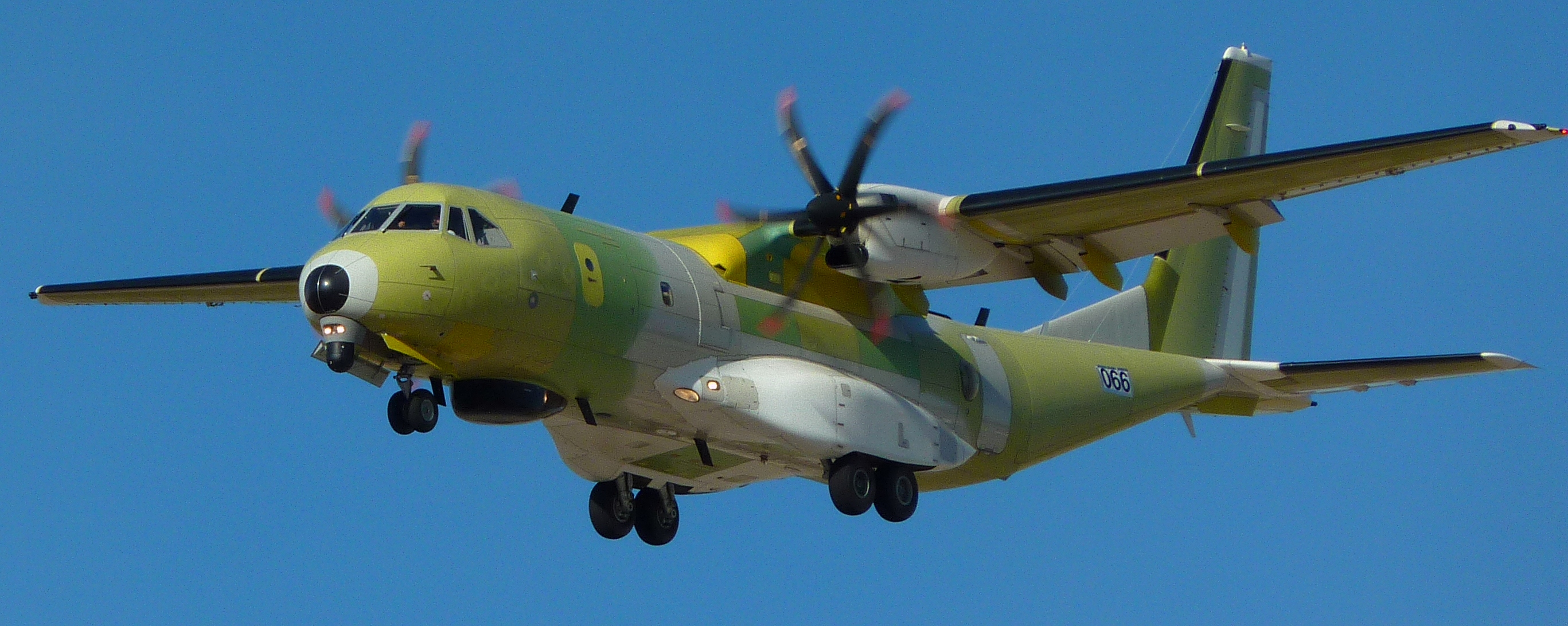 CASA C-295 Persuader in primer during a trials flight.